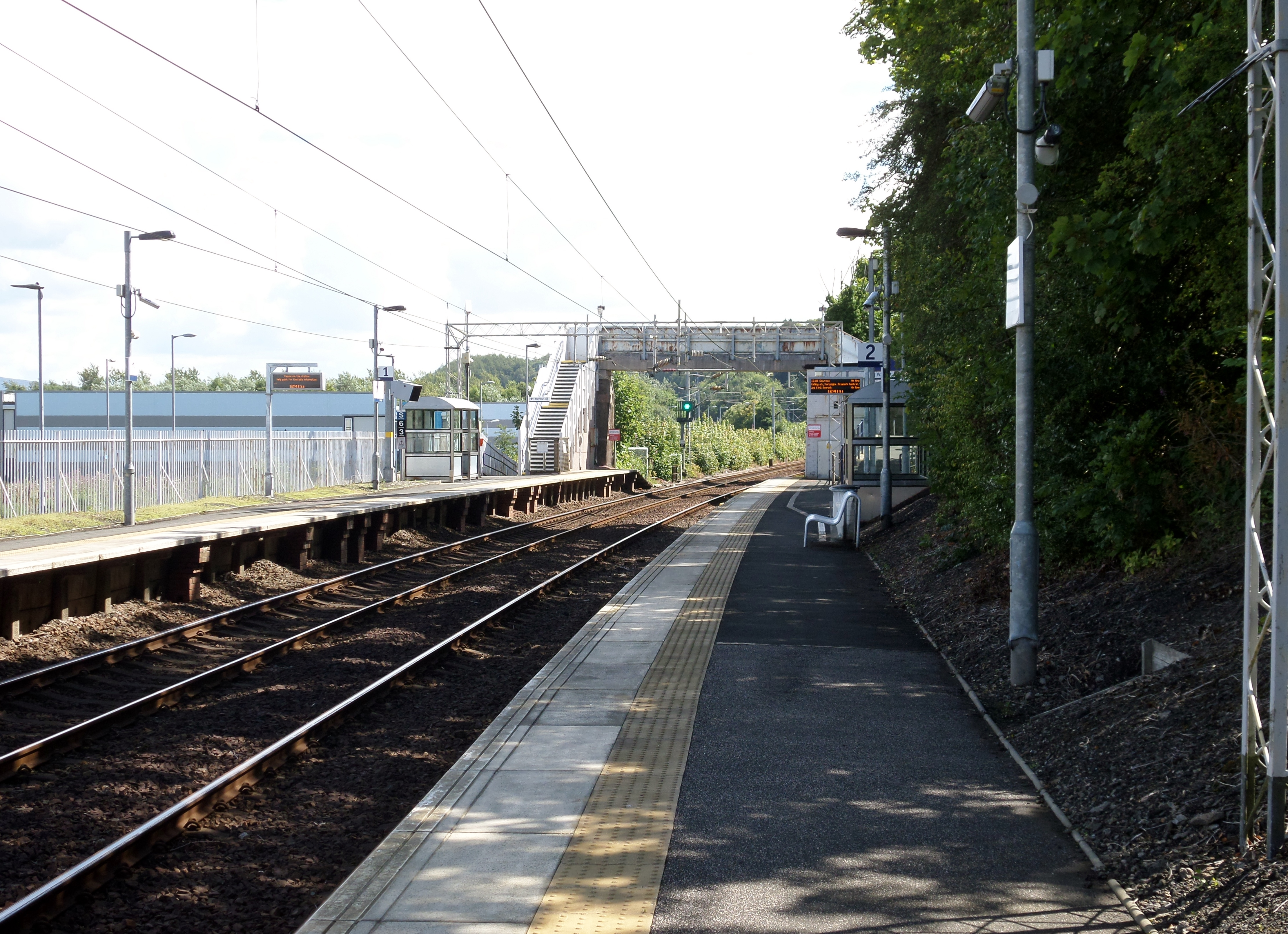 Woodhall railway station, Port Glasgow, Inverclyde Line - view east